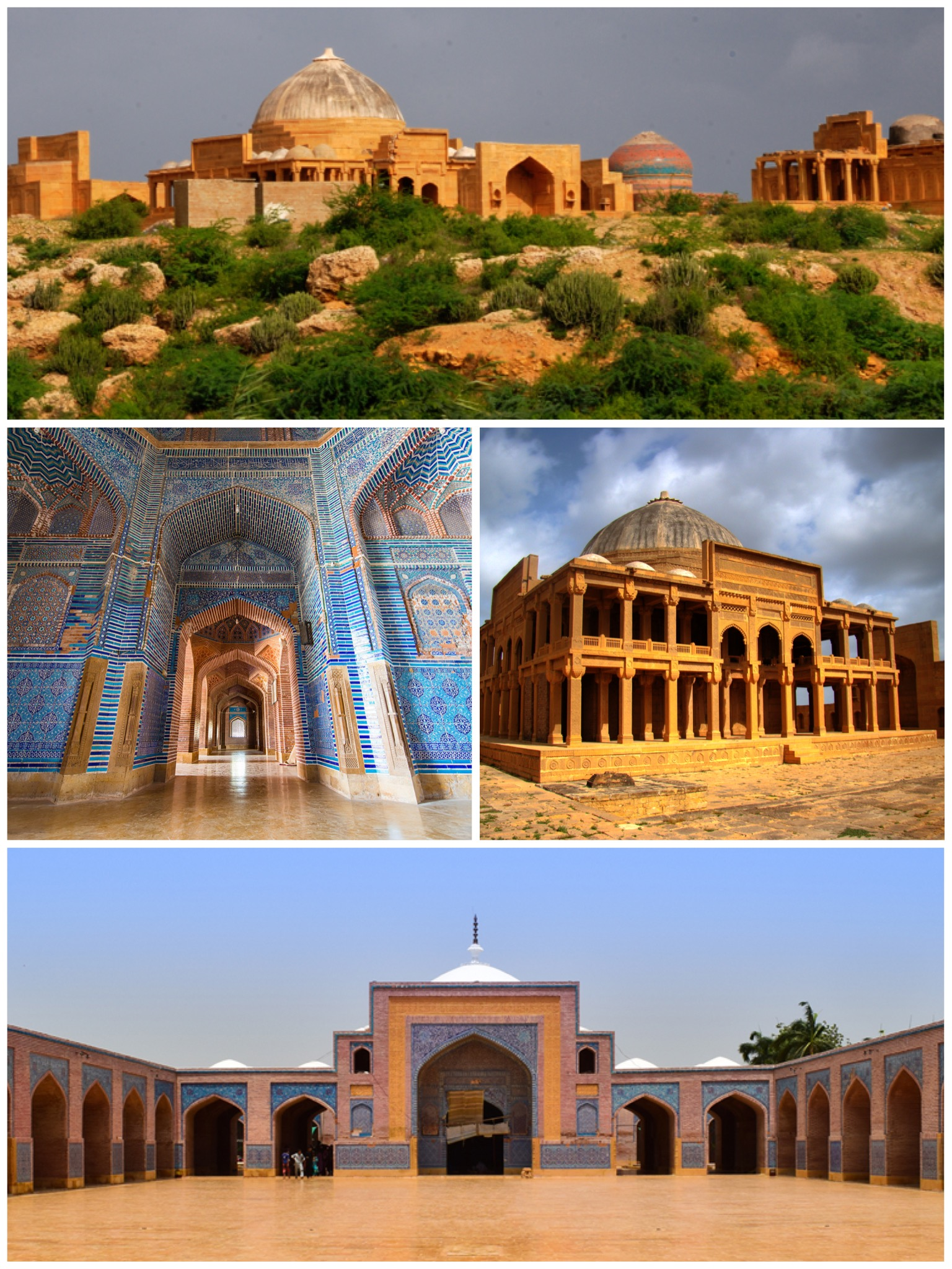 A collage of Thatta, Pakistan